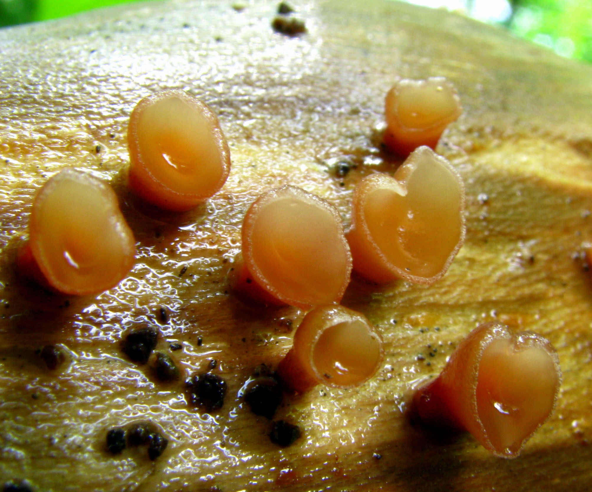 Mushroomoberver users say now Dacryopinax elegans. Therefore it should be renamed. Specimens photographed in Wayne National Forest, Hocking county, Ohio, USA.